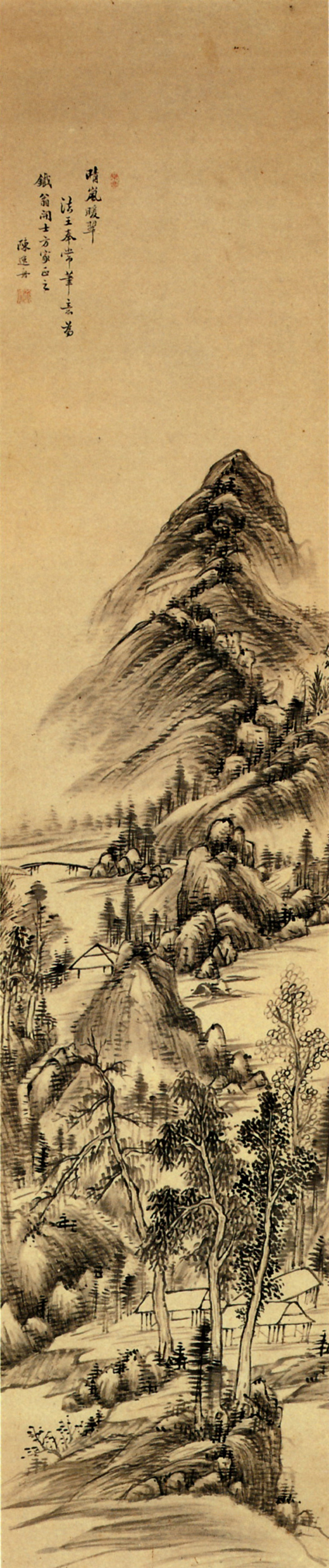 Summer Breeze over Verdant Peaks,ink on paper,hanging scroll ,The Hashimoto Collection